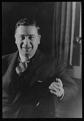 John William Van Druten photo taken by Carl Van Vechten, photographer.